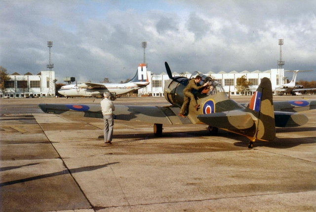 Harvard at RAF Brize Norton